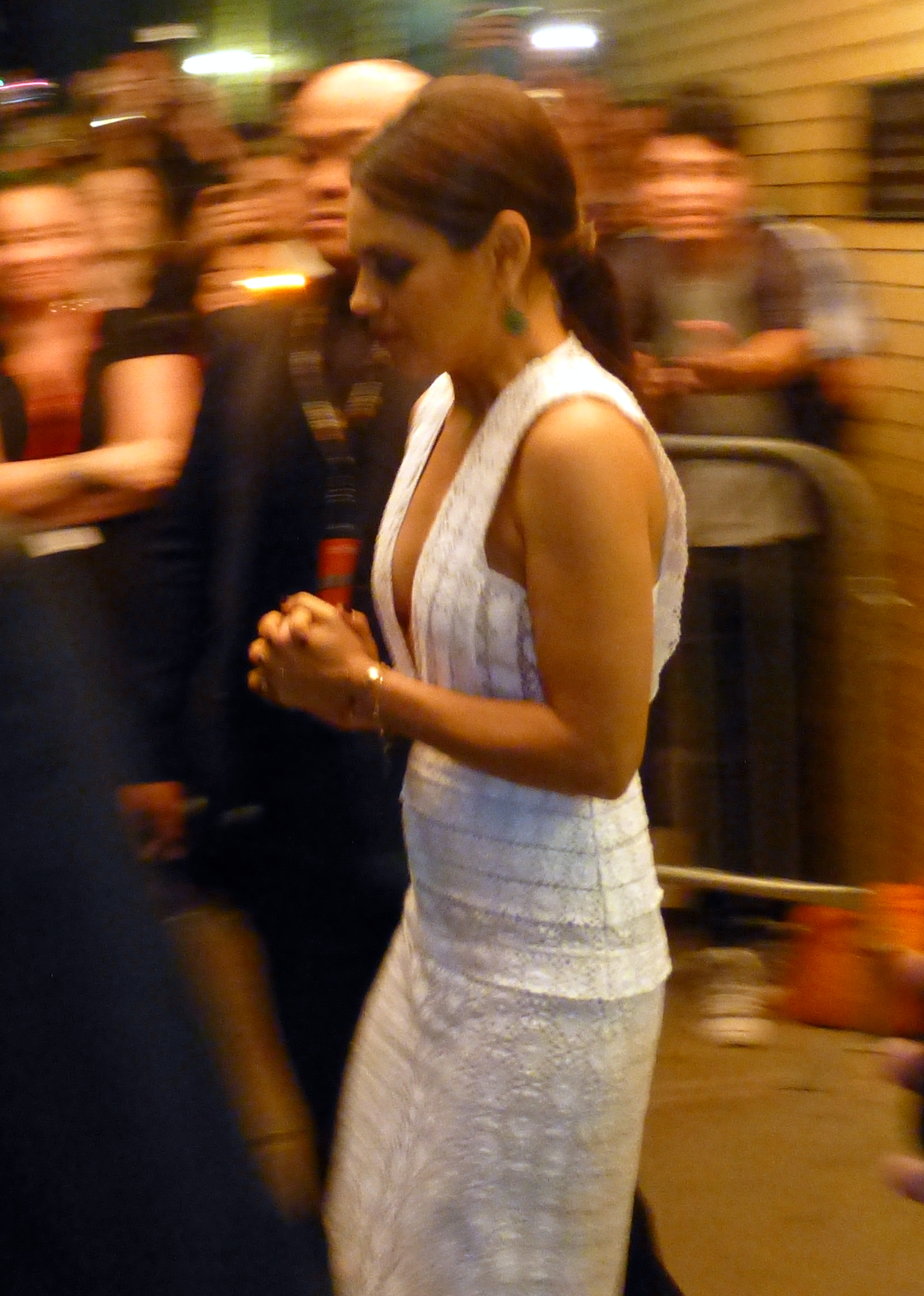 She just held that pose and ran through. Albeit slightly slower than Olivia Wilde and Jason Sudekis. Mila Kunis at the premiere of Third Person, Toronto Film Festival 2013